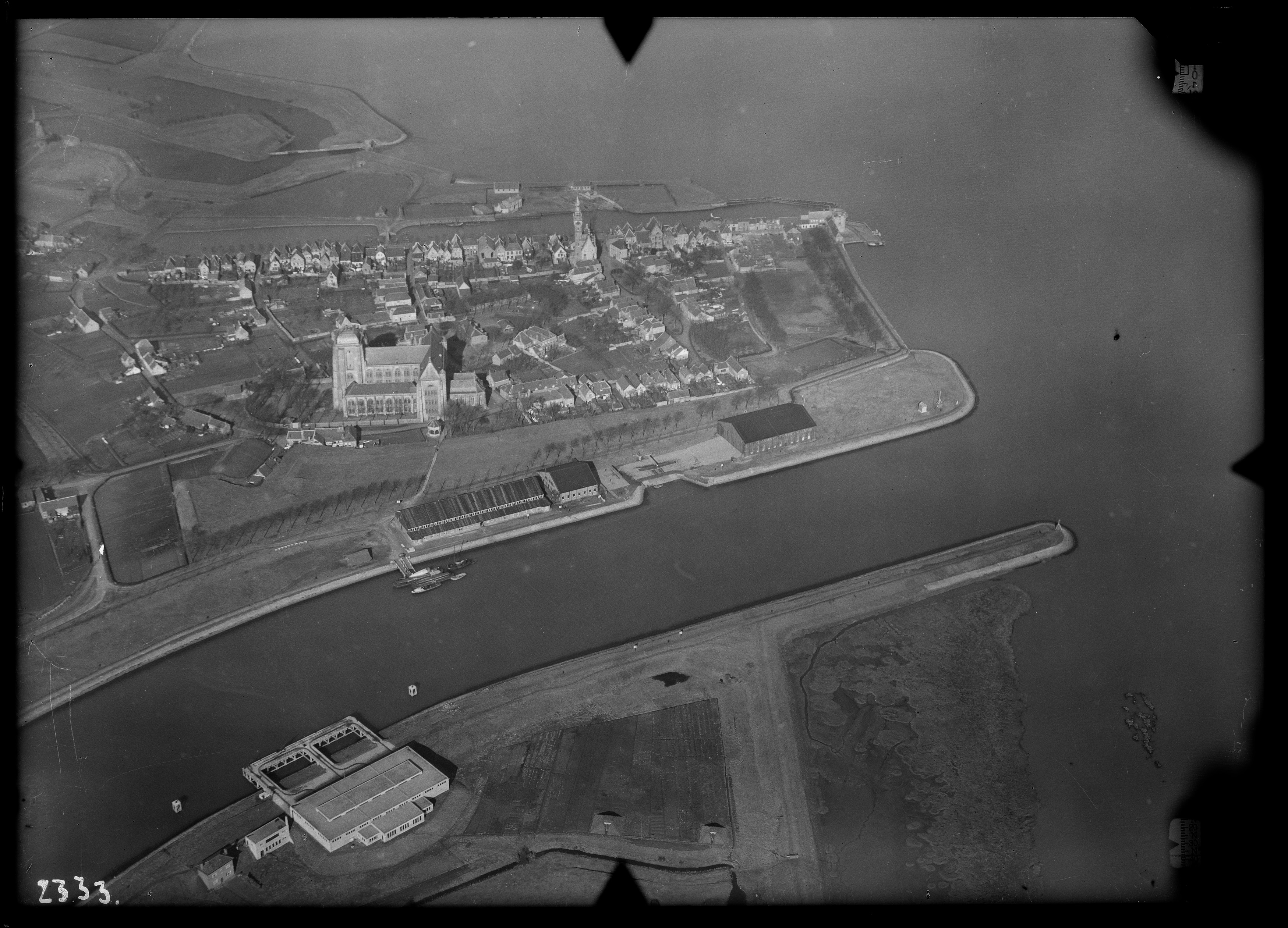 Aerial photograph of Veere, The Netherlands